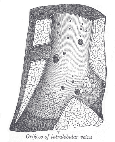 Longitudinal section of a hepatic vein. (After Francis Kiernan.)